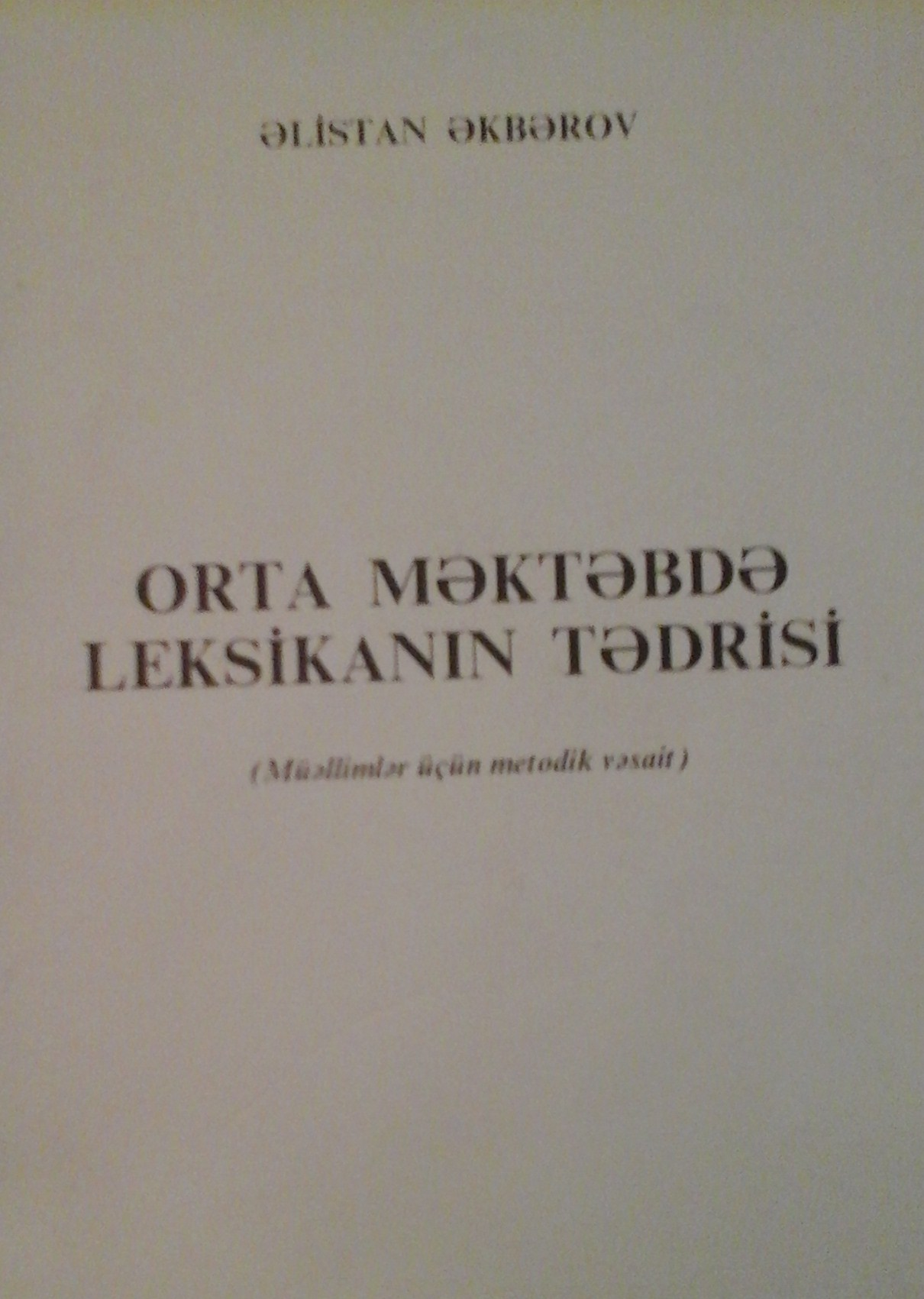 Kitab